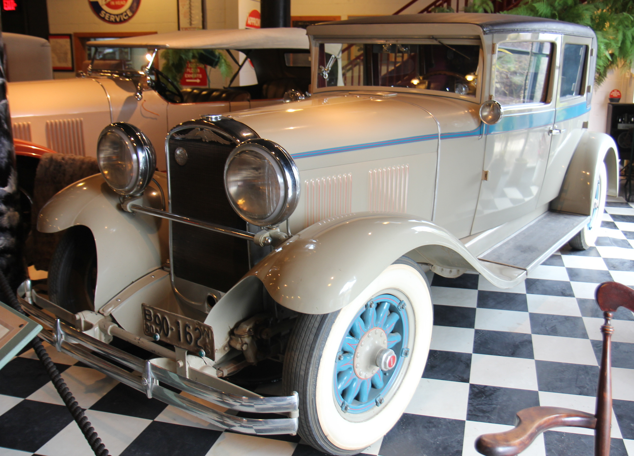 1930 Kissel 8-95 on display at the Wisconsin Automobile Museum.